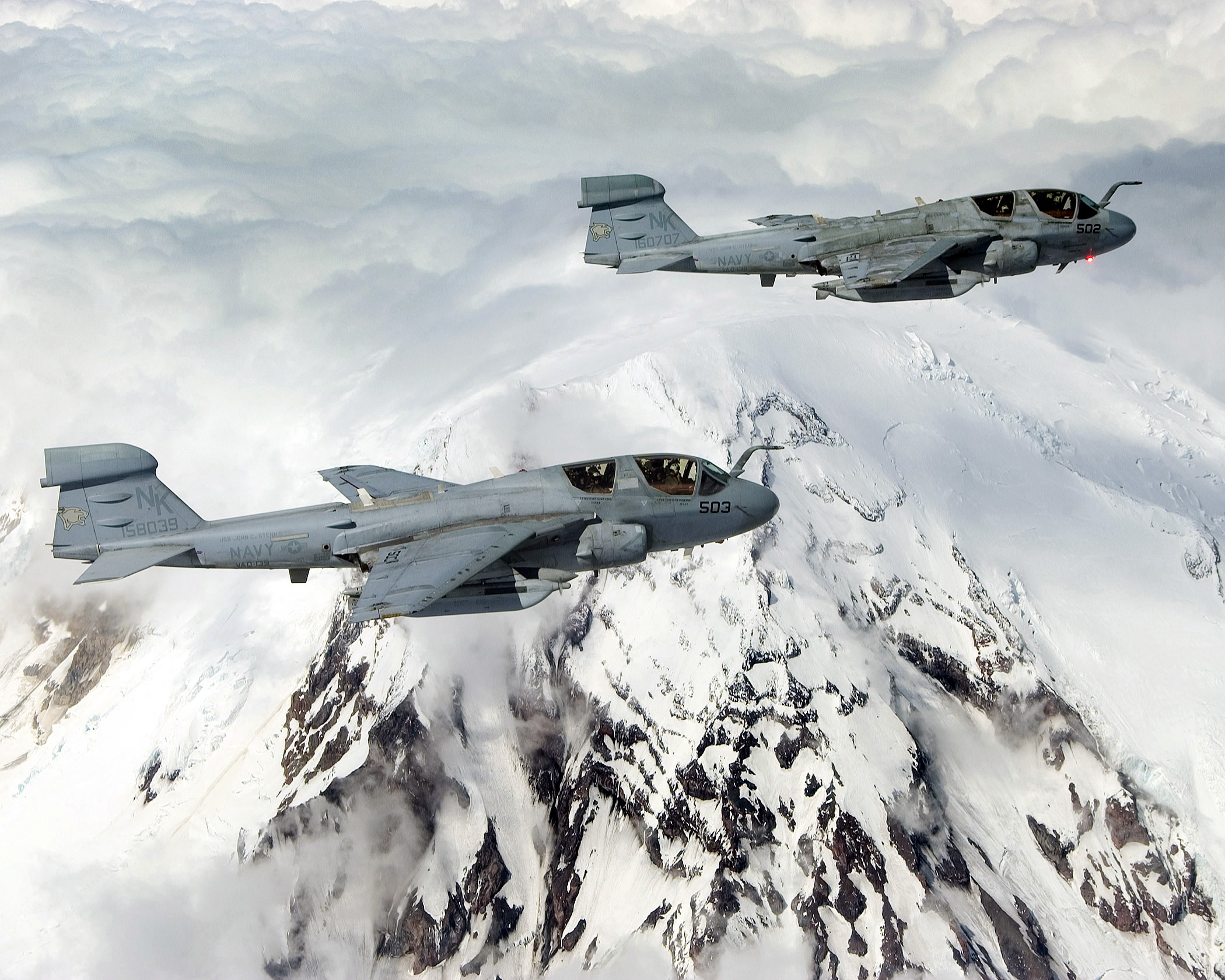 An air-to-air view showing two US Navy (USN) EA-6B Prowler aircraft from Electronic Attack Squadron One Three Nine (VAQ-139) "Cougars," in flight over Mount Rainier, Washington (WA), during a routine training mission conducted in support of Operation IRAQI FREEDOM. The EA-6B's primary mission is to protect fleet surface units and other aircraft by jamming hostile radars and communications.